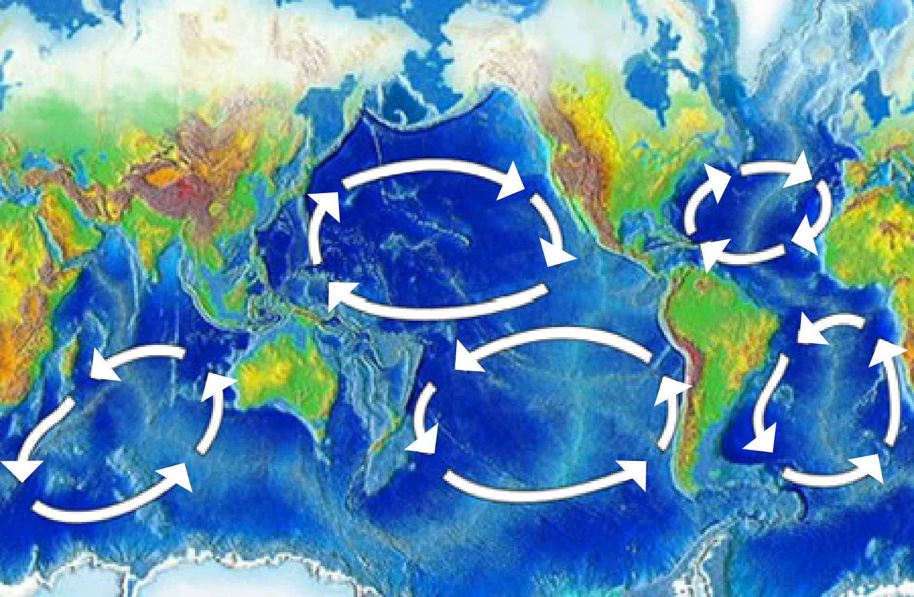 There are five major ocean-wide gyres — the North Atlantic, South Atlantic, North Pacific, South Pacific, and Indian Ocean gyres. Each is flanked by a strong and narrow “western boundary current,” and a weak and broad “eastern boundary current”.